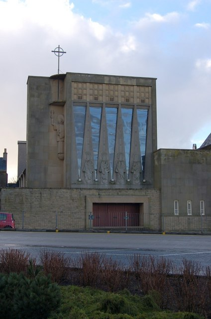 Church St Francis Xavier's Catholic Church in Hope Street Falkirk. 352853